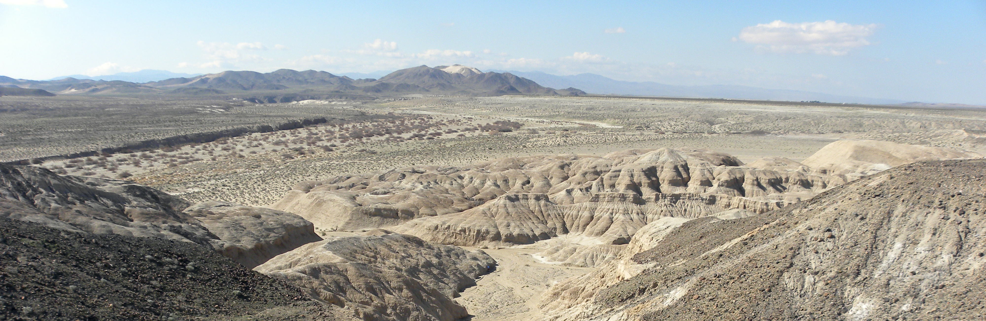 Sediments deposited in Lake Manix (Pleistocene) near Harvard Road, Mojave Desert, California.